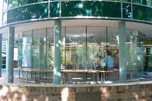 rob alberts, North Sydney Council, our dept took these photos